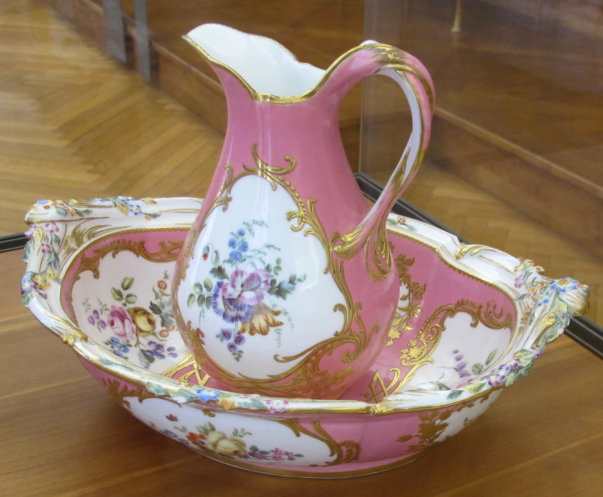 porcelain in the Musée des Beaux-Arts de la Ville de Paris